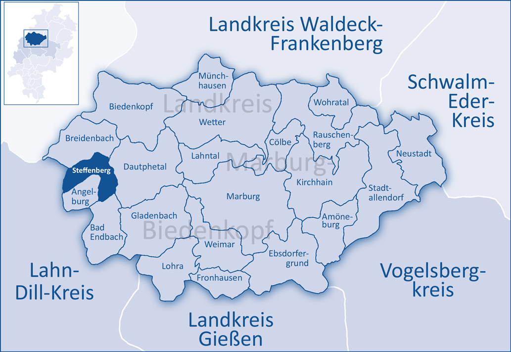 The map shows the municipal territory of Steffenberg in the district of Marburg-Biedenkopf